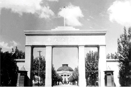 South Gate of National Central University, Nanjing, 1940s.